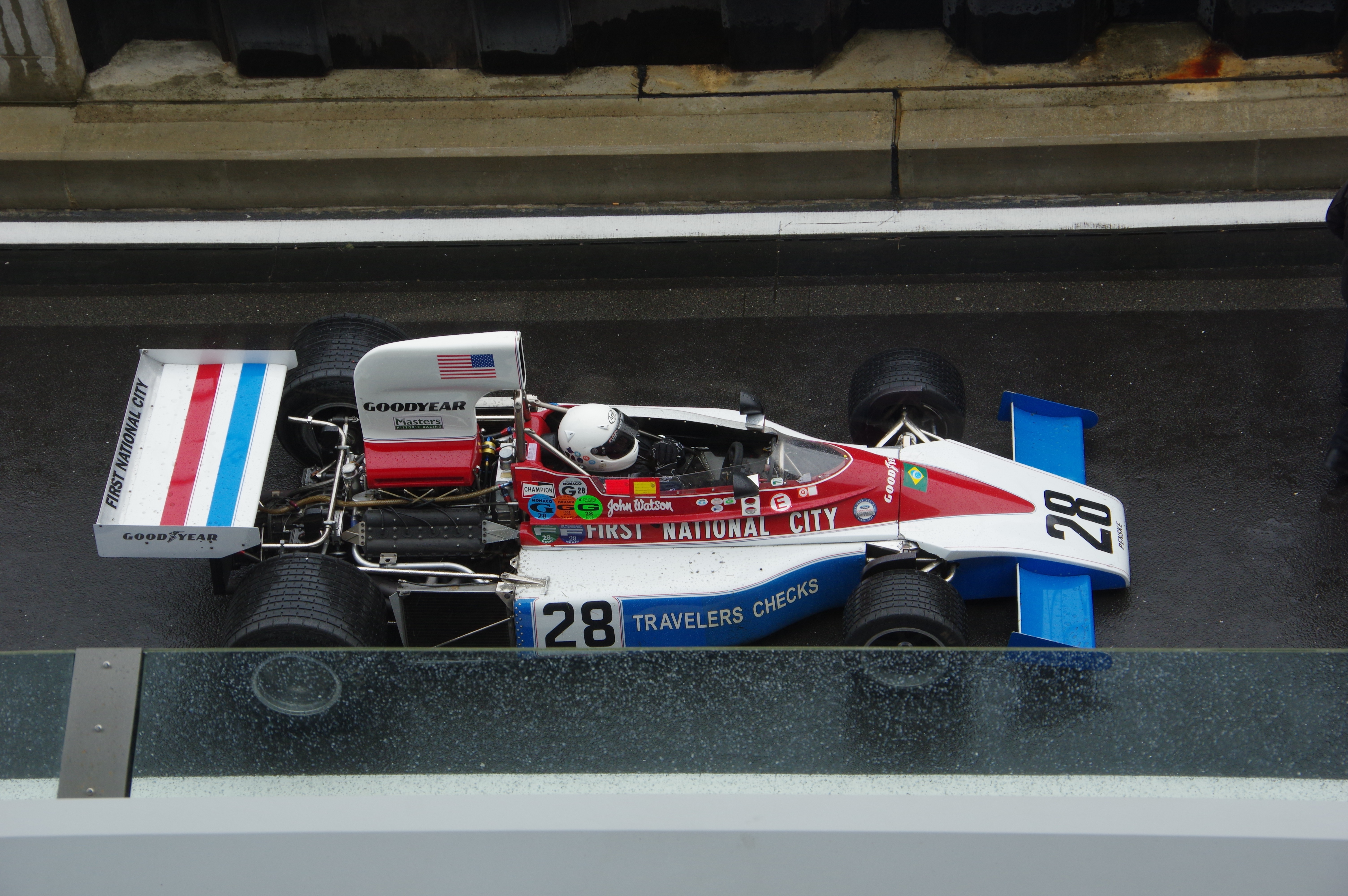 FIA Historic F1, Silverstone Classic 2015